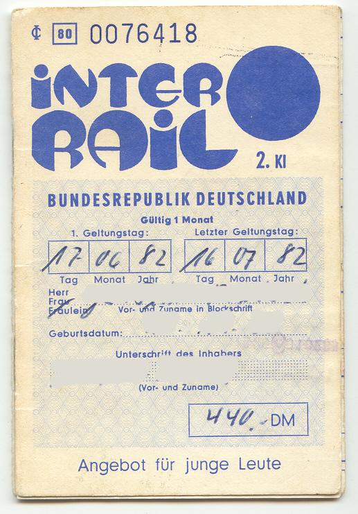 A German InterRail ticket of 1982